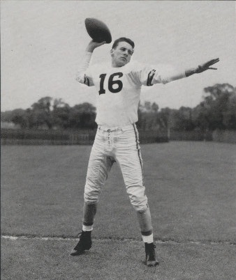 Photograph of Len Dawson, Purdue quarterback